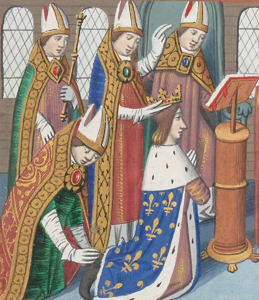 Sacre of Charles VII of France.